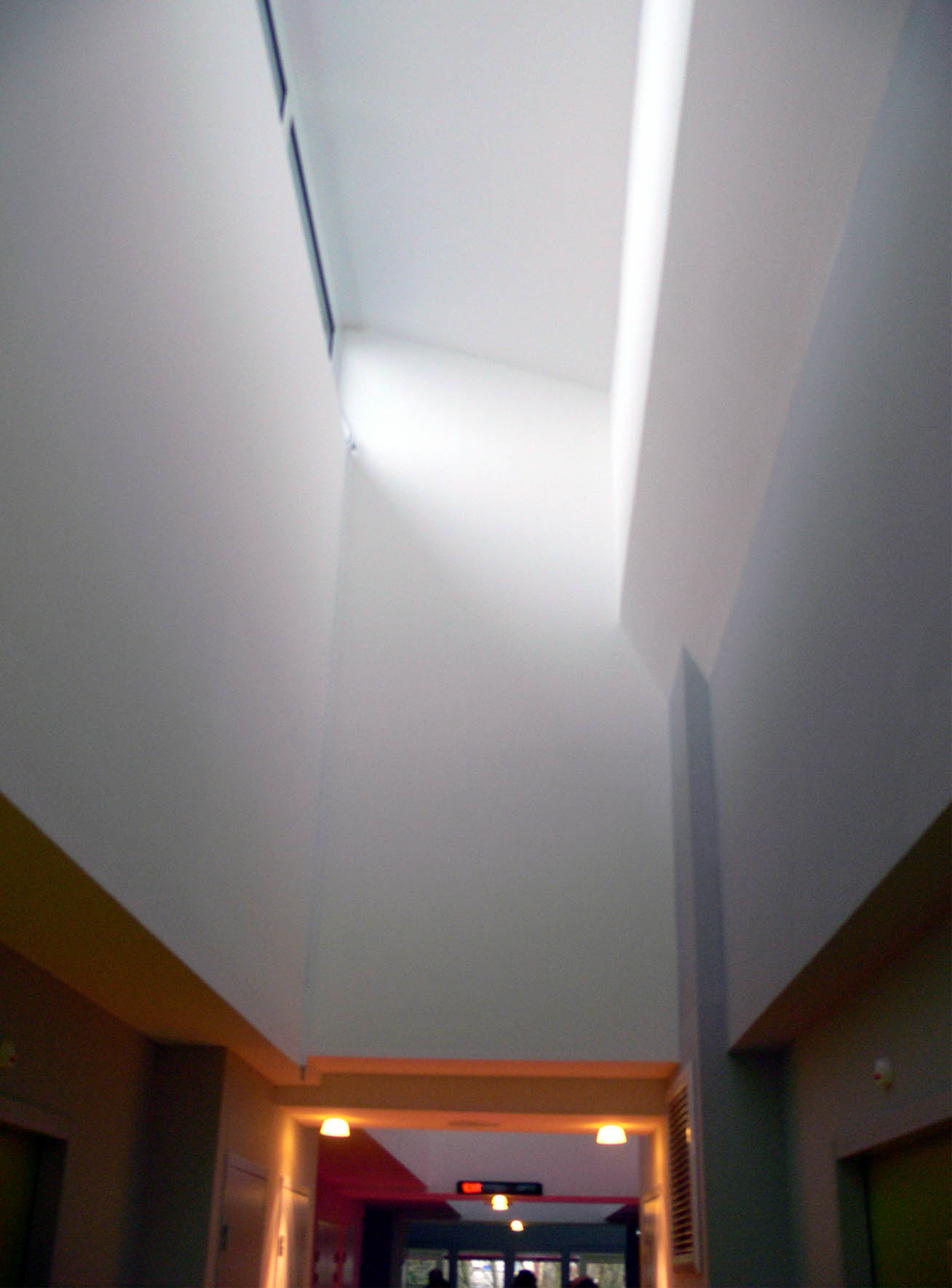 Detail of a Retirement home (with ecological & energy efficiency building), in Trith-Saint-Léger, in north of France, (dept : 59) in Nord-Pas-de-Calais region, made with ecological principles.